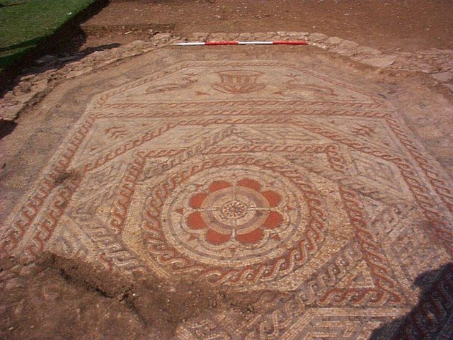 Roman Villa Bradford on Avon